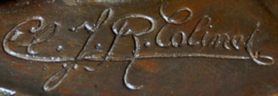 Signature of Claire Jeanne Roberte Colinet